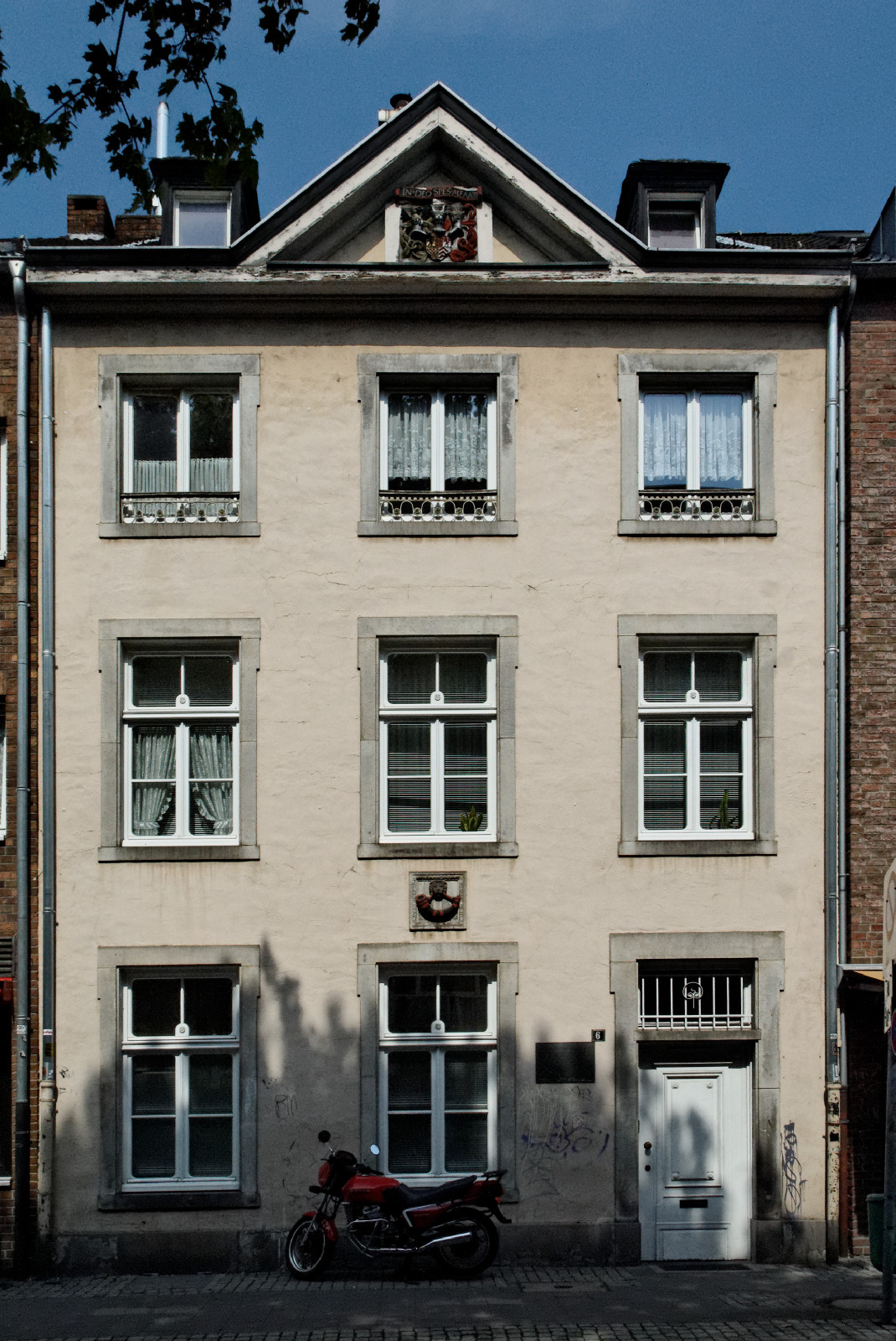 House Ratinger Straße 6 in Düsseldorf-Altstadt, Germany